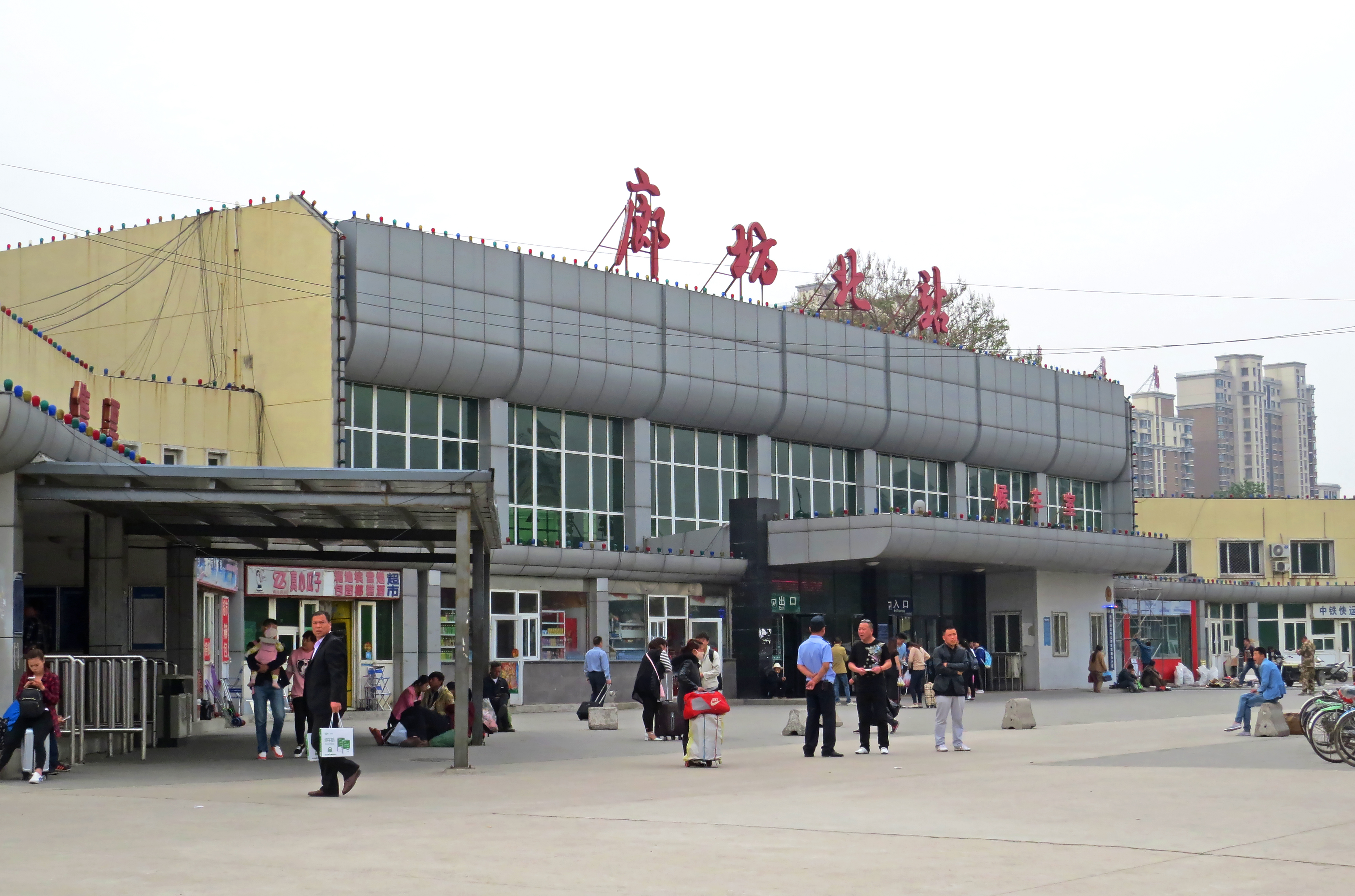 Another "MMP North" - Langfang Railway Station is just by its side, but it took me 10 minutes to run from this conventional station to that HSR station. Imagine how I would react in the (in)famous Chongqing North Railway Station...